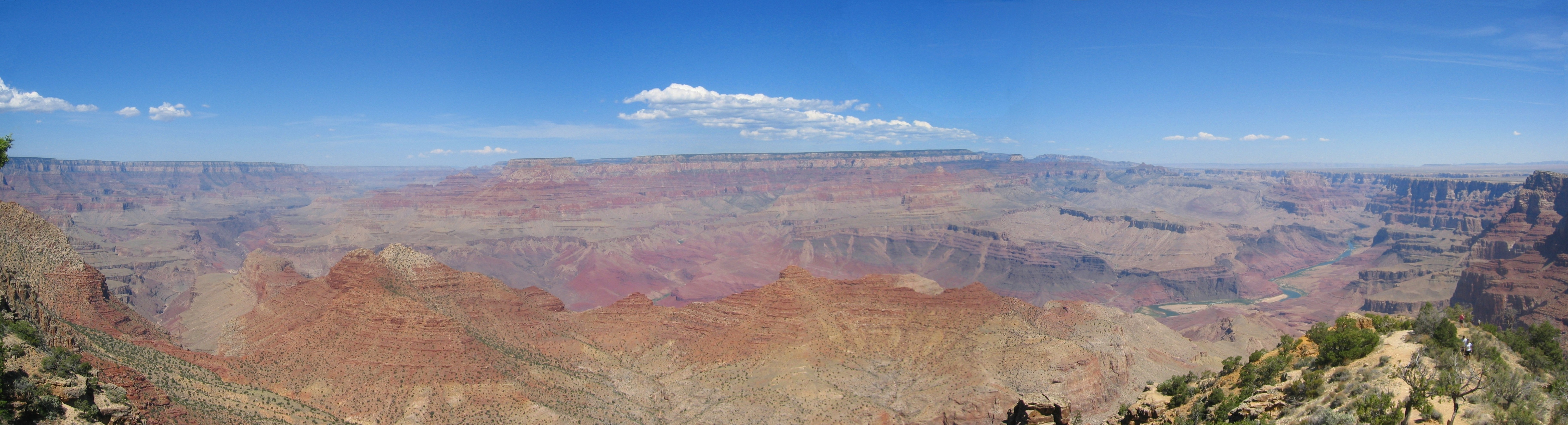 Panorama of the Grand Canyon on the south rim in the morning. It was made using Arcsoft PhotoImpression by merging four pictures.